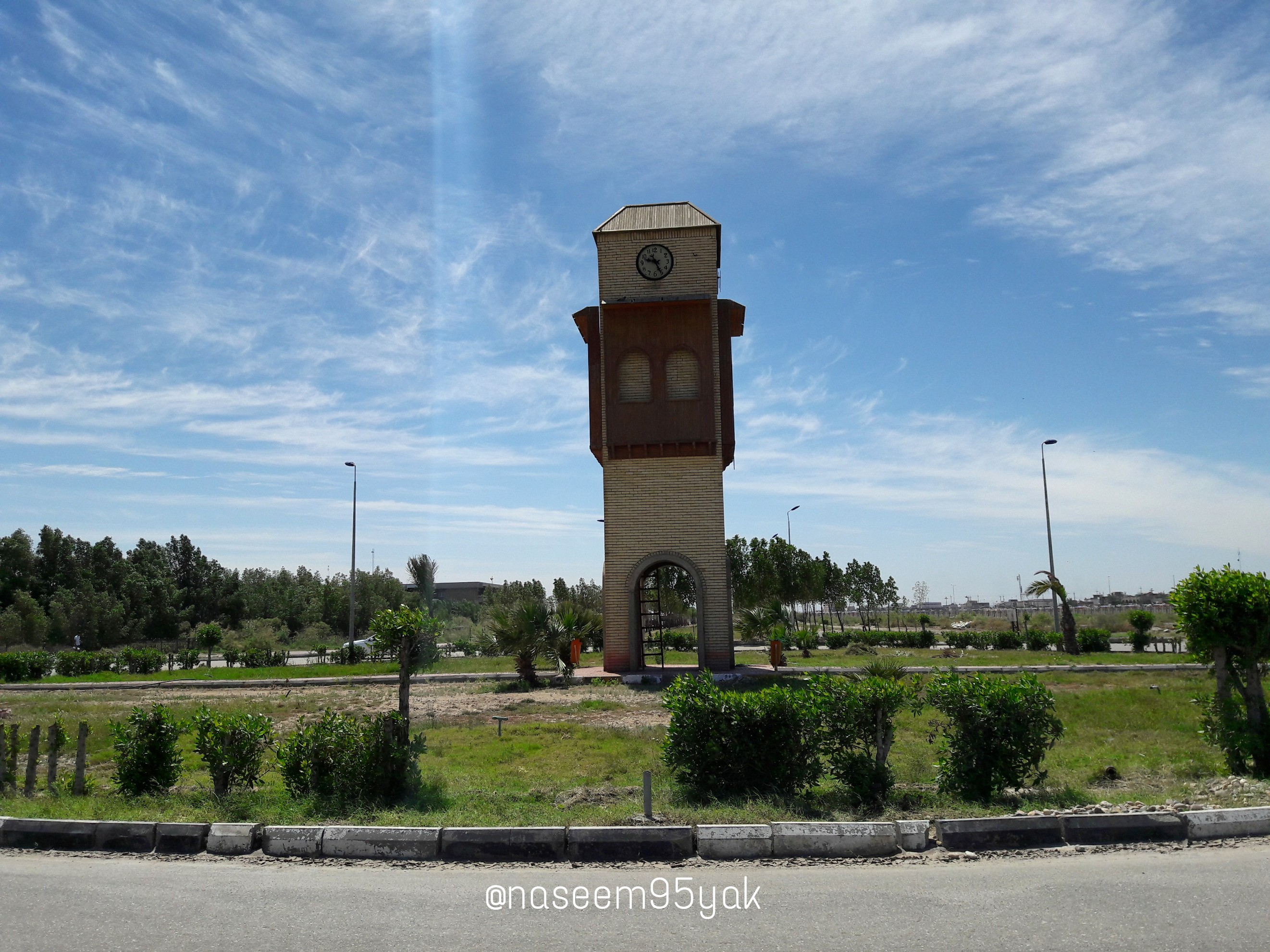 The famous clock tower of Basra Universityالشجرة التين والأغنام